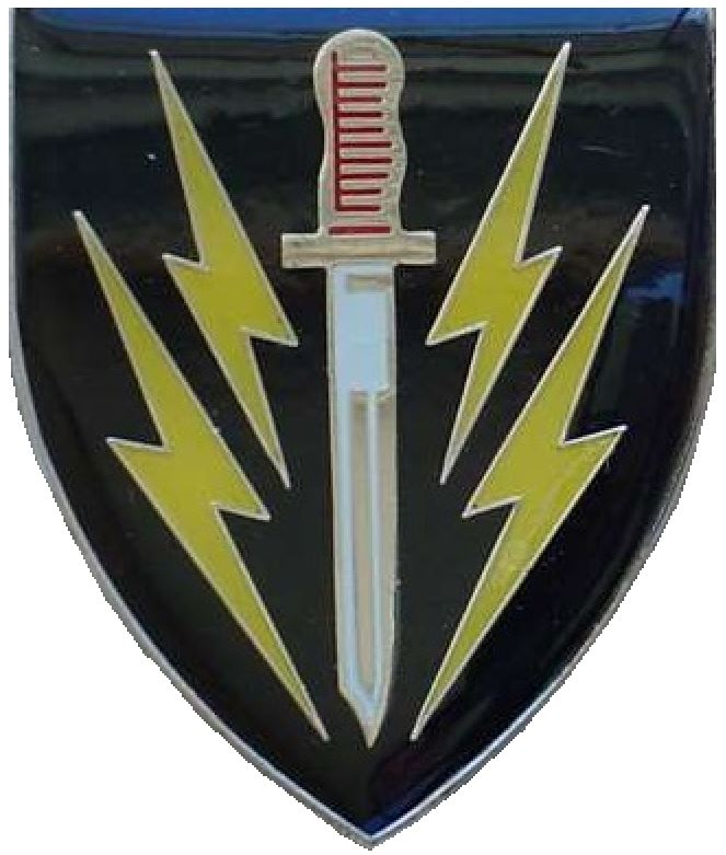 SADF 61 Mech flash badge